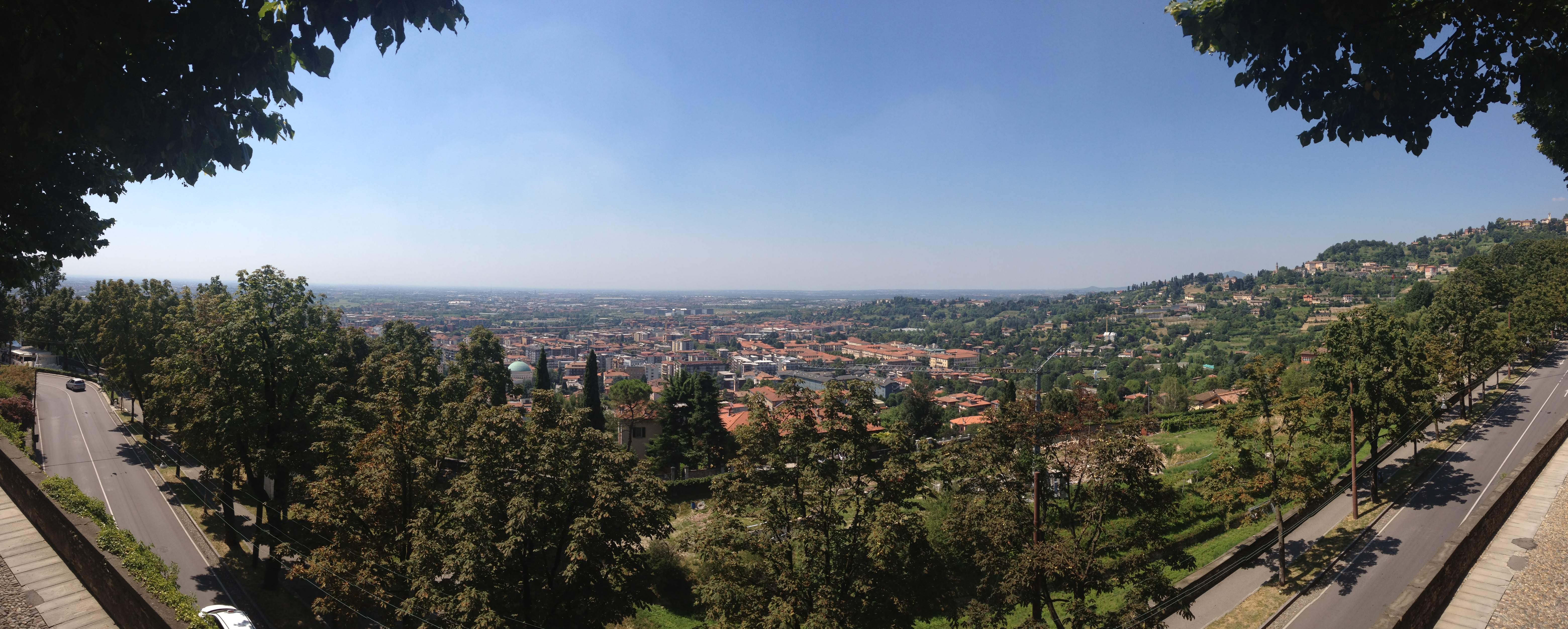 View of Bergamo